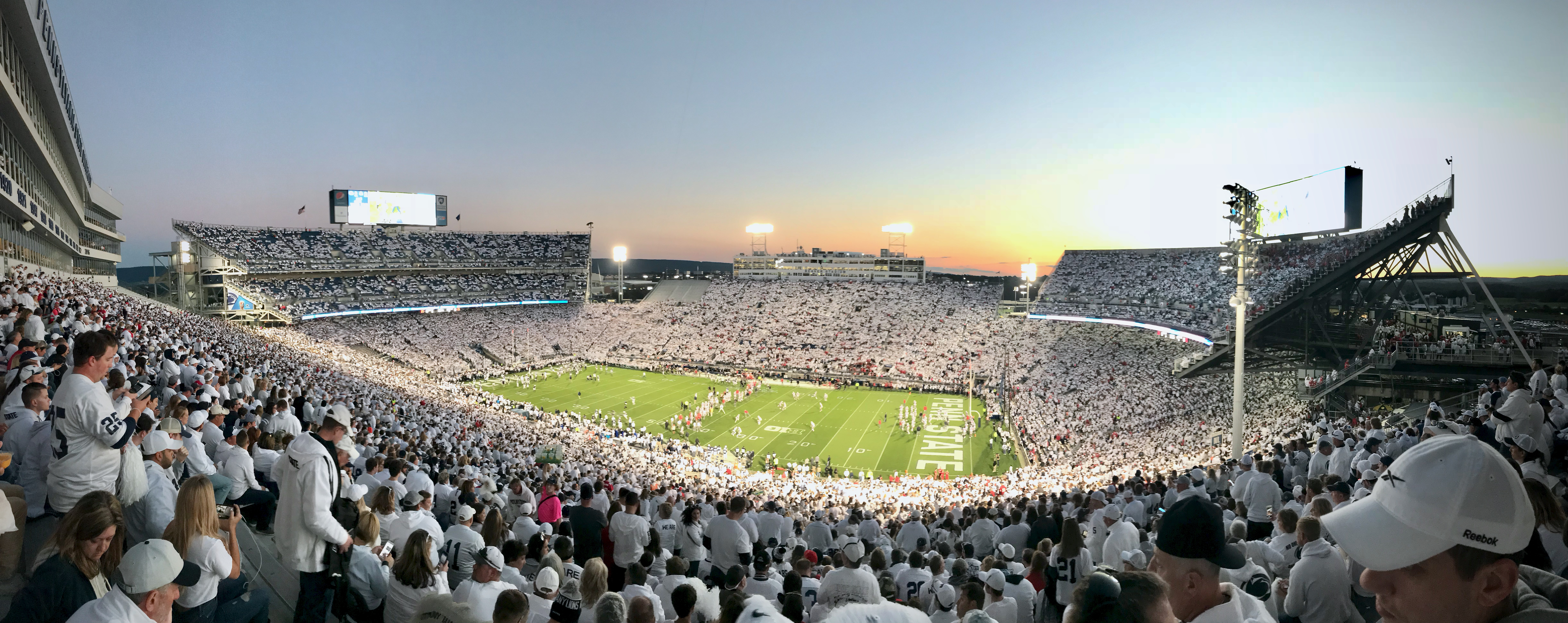 40 minutes to kickoff - Beaver Stadium fills up during pregame warmups prior to the annual "Whiteout" game VS Ohio State in 2018. A record crowd of 110,889 witnessed a 27-26 come from behind Buckeye Victory over Penn State.